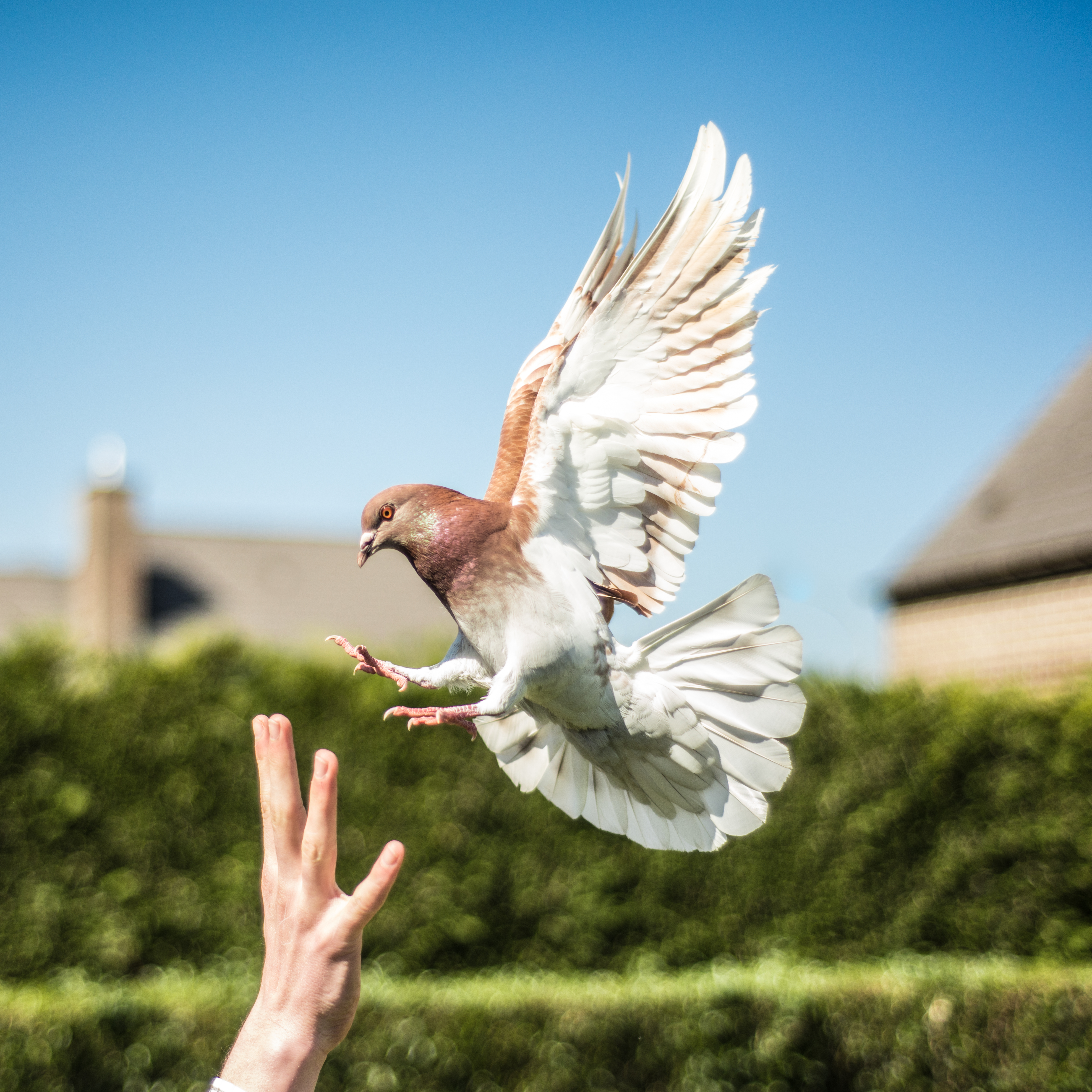 Actually our pigeon likes to fight with my younger brother. He always attacks him like this. It gave me the opportunity to take this shot. Hope you like it.